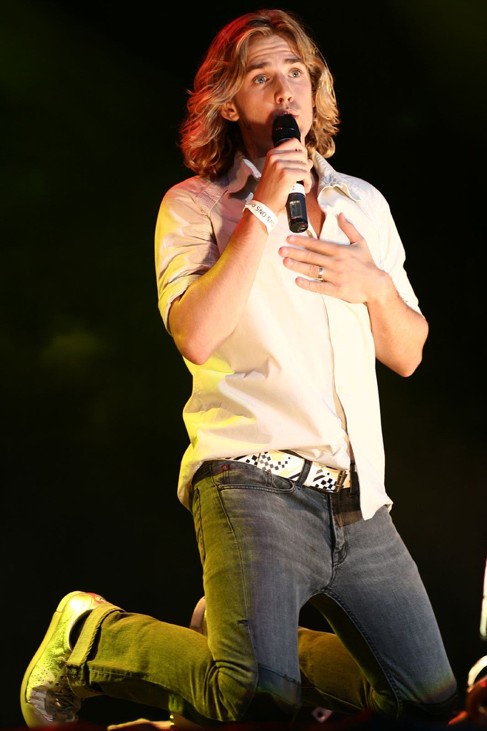 Martin Rolinski performing live with BWO during Stockholm Pride 2007